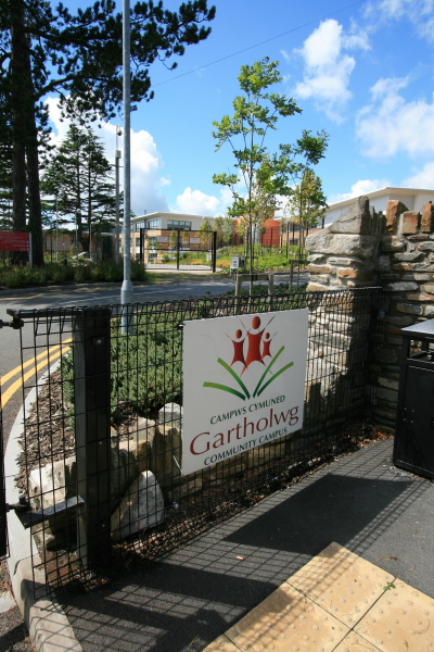 Campws Gartholwg at Church Village near Pontypridd. Darren Wyn Rees at Aberdare Blog